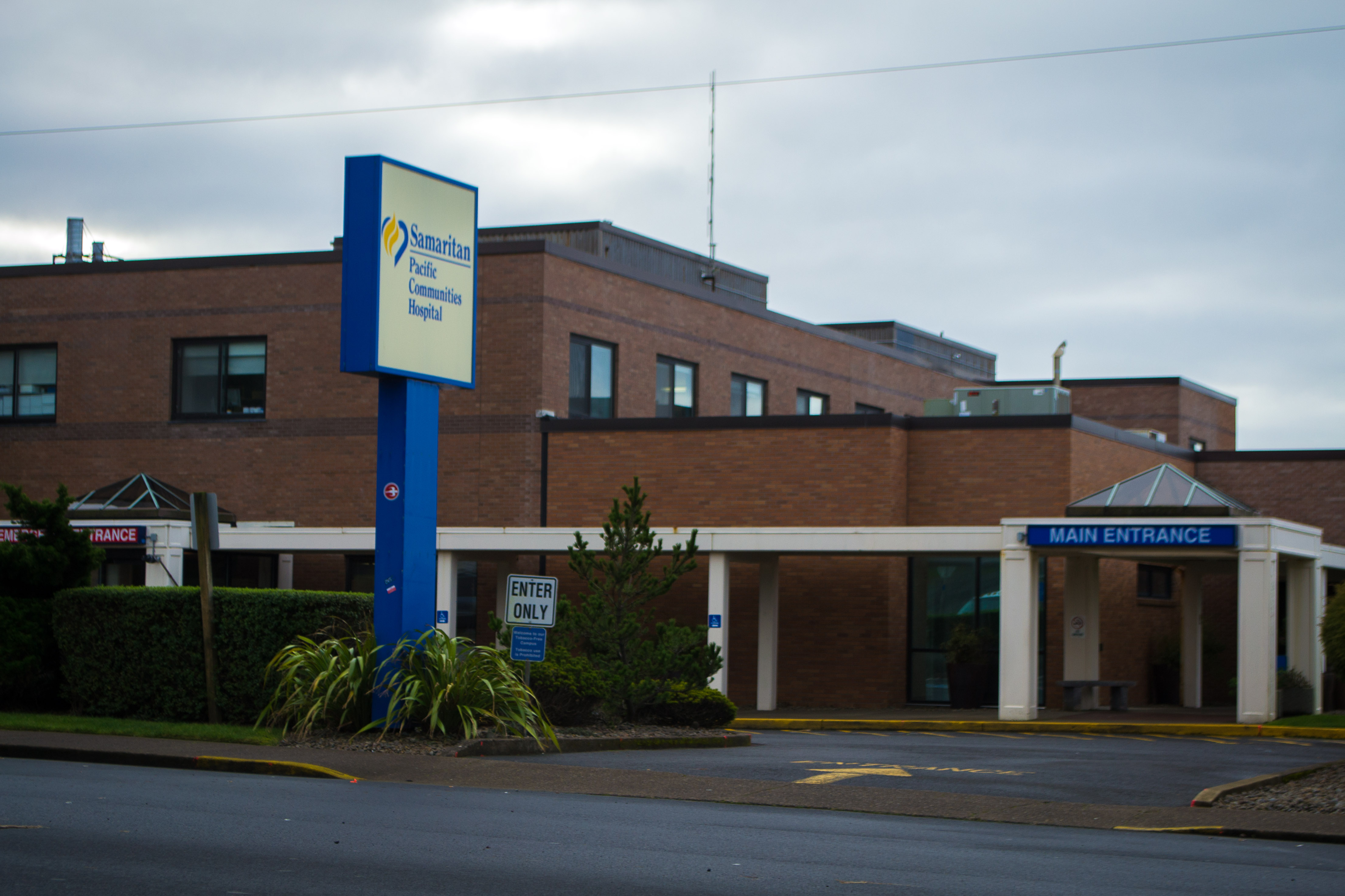 Samaritan Pacific Communities Hospital serves the community of Newport, Oregon